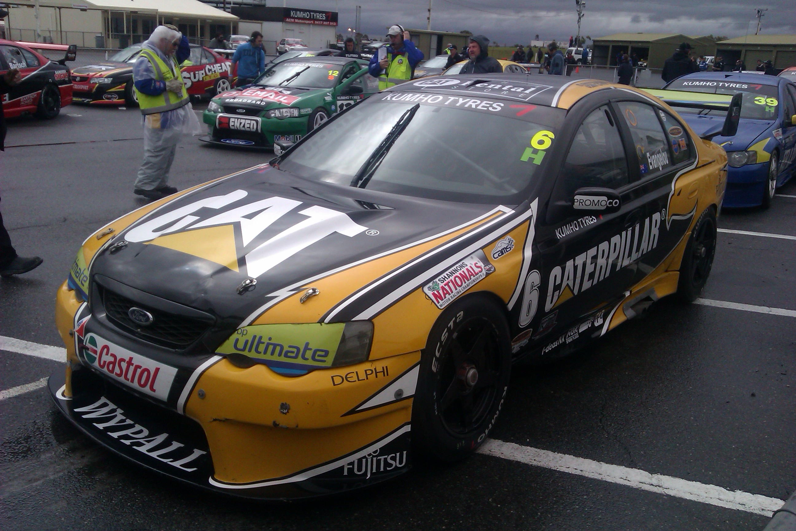 The Ford BA Falcon of Tony Evangelou at Mallala Motor Sport Park on 21 April 2013. The car was competing in the Round 2 of the 2013 Kumho Tyres V8 Touring Car Series